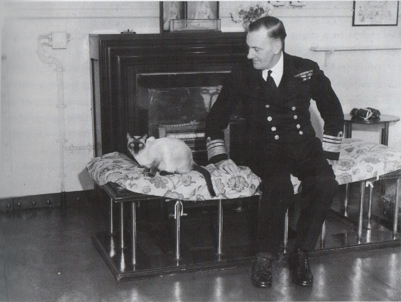 Vice-Admiral Sir James Somerville, commander Force H, in his day cabin with his Siamese cat Figaro.